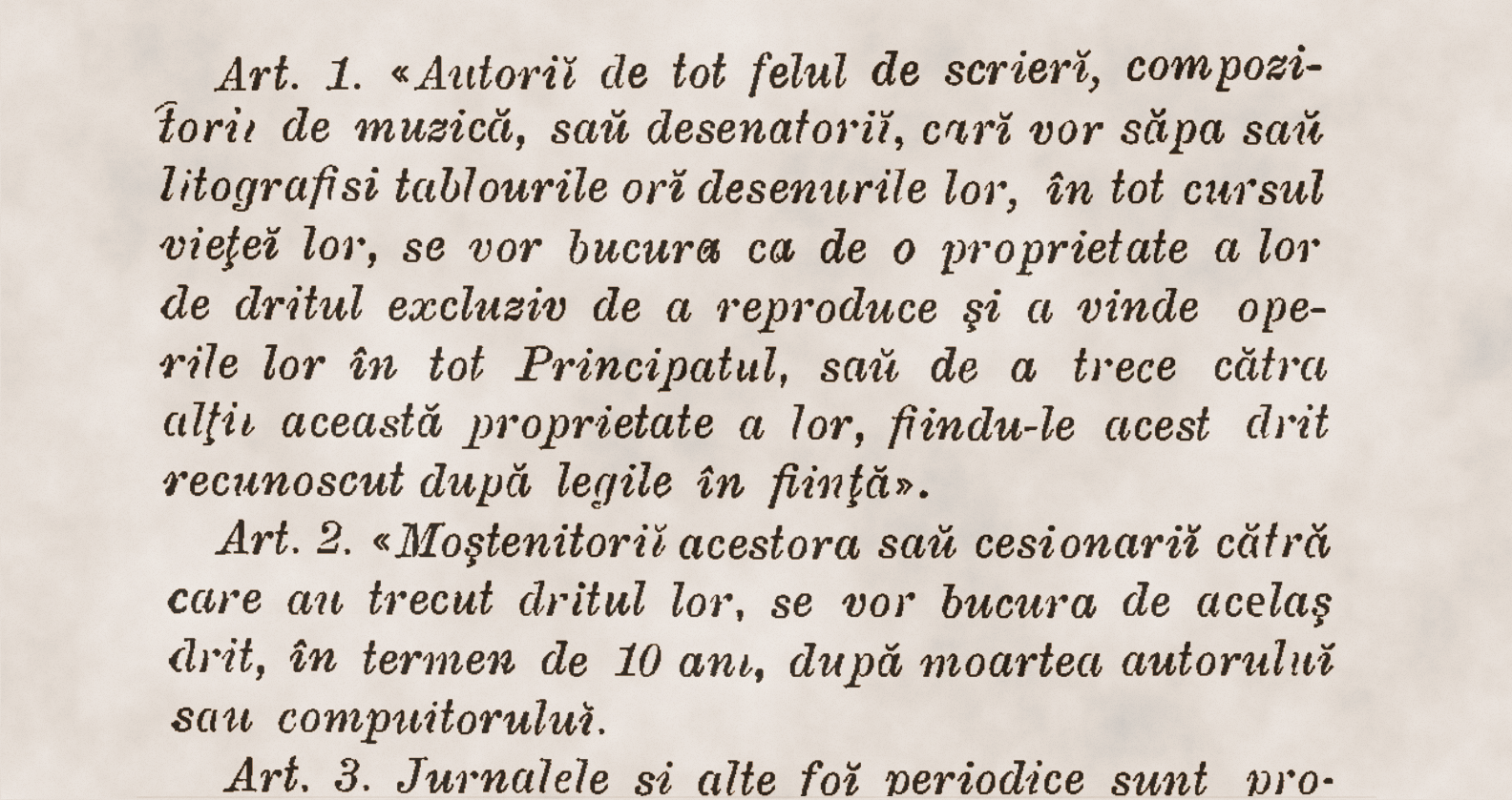 Extract from Romanian Law of the press, from 1862Română: Extrass din Legea presei din 1862